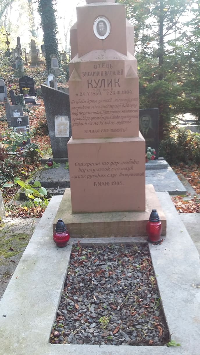 The grief of a prominent Ukrainian priest Vissarion Kyluk, St.Basilius monastic covenant